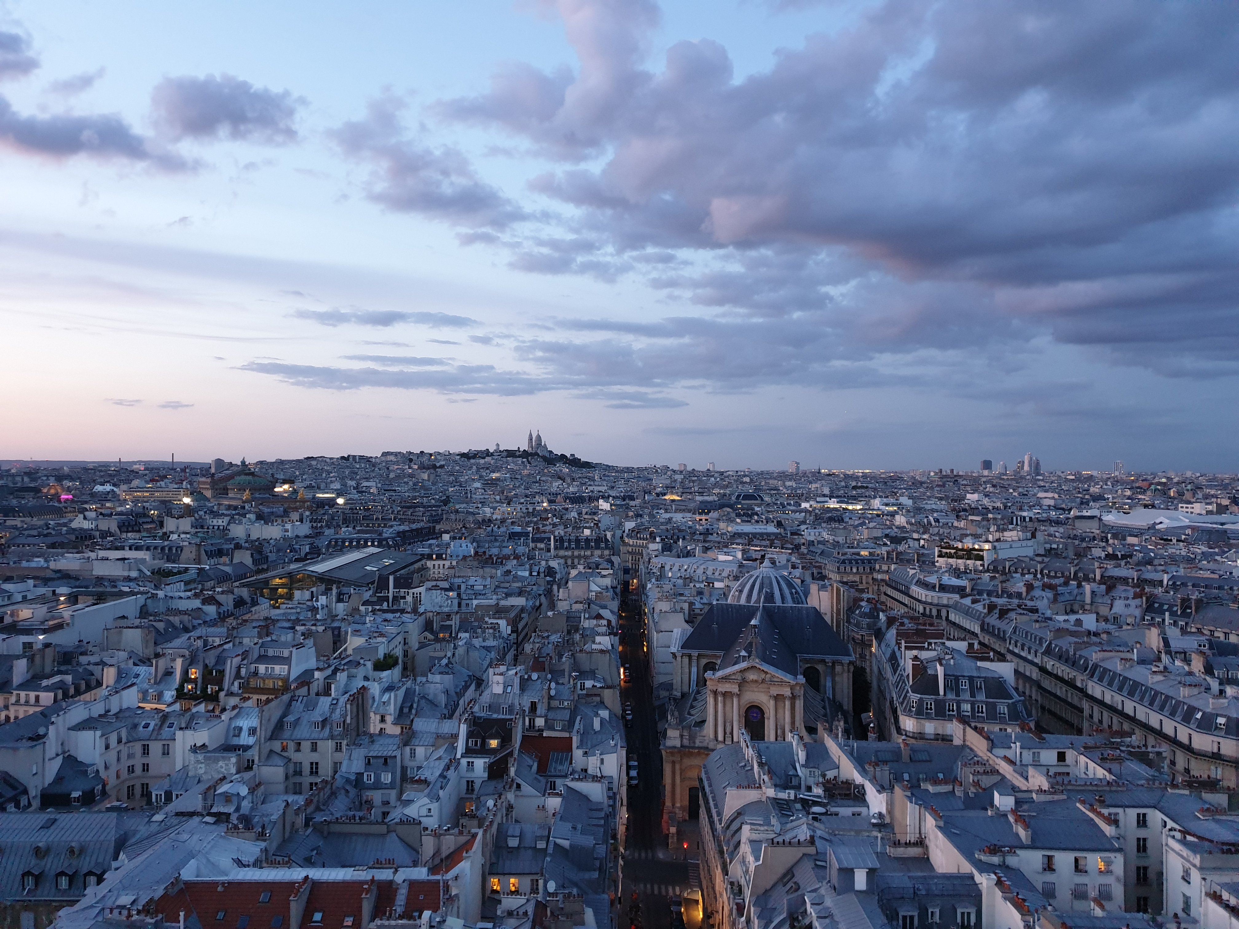 North view of Paris from the Tuileries Garden